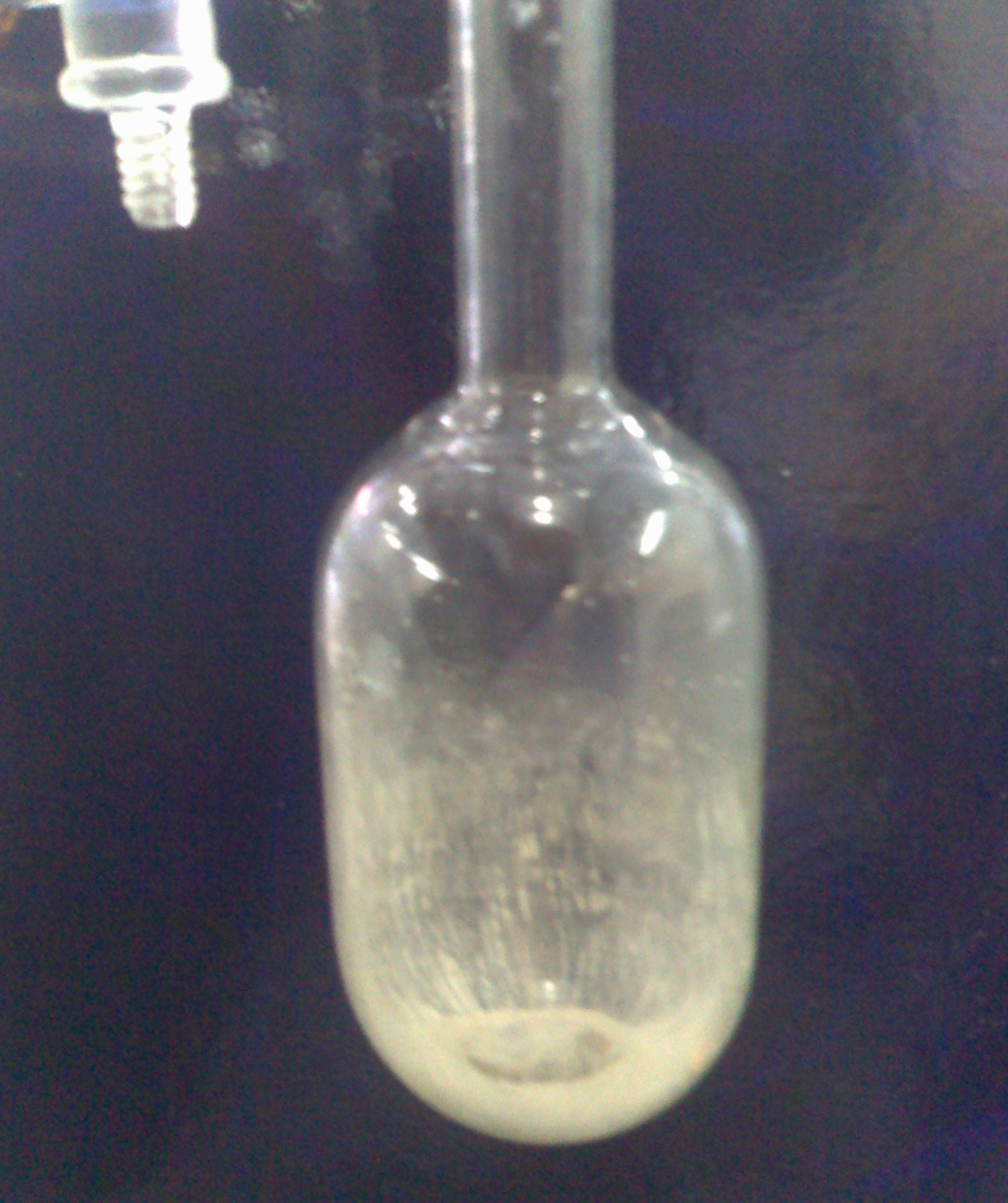 1,3-dimesitylimidazol-2-ylidene in a Schlenk flask